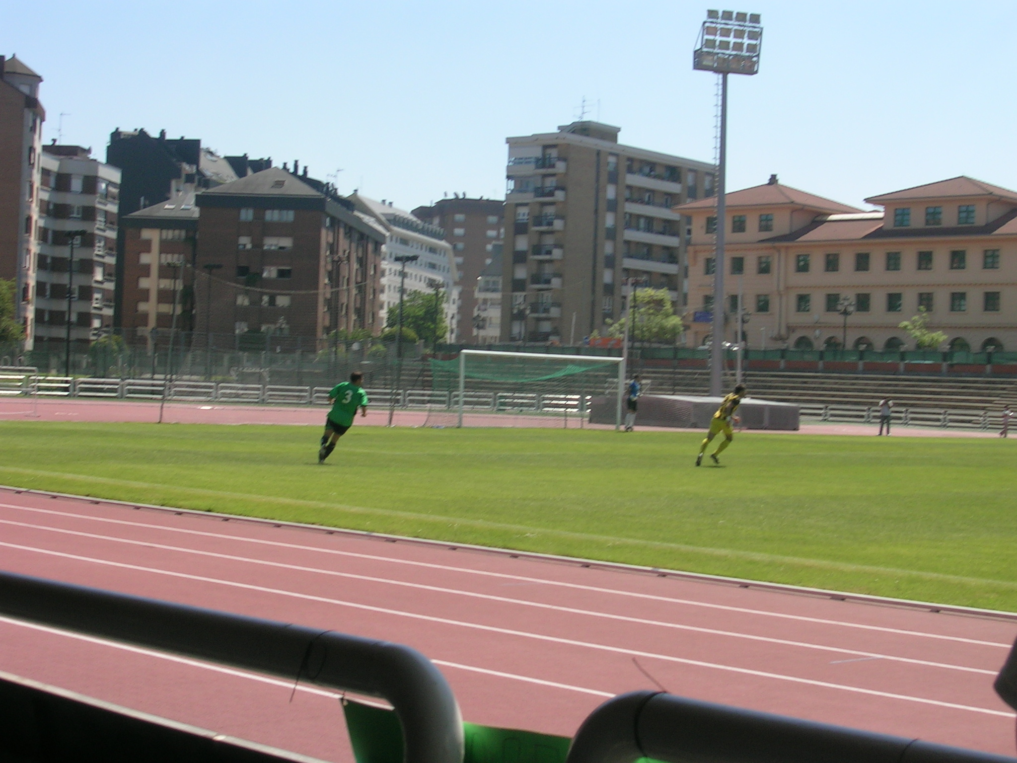 Partido de la Primera Ronda de ascenso a Segunda B entre la Asociación Deportiva Universidad de Oviedo y el CD Portugalete.